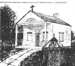 The original St. Joseph Catholic Church built in Fort Madison, Iowa in 1840 under the direction of the Rev. John G. Alleman.